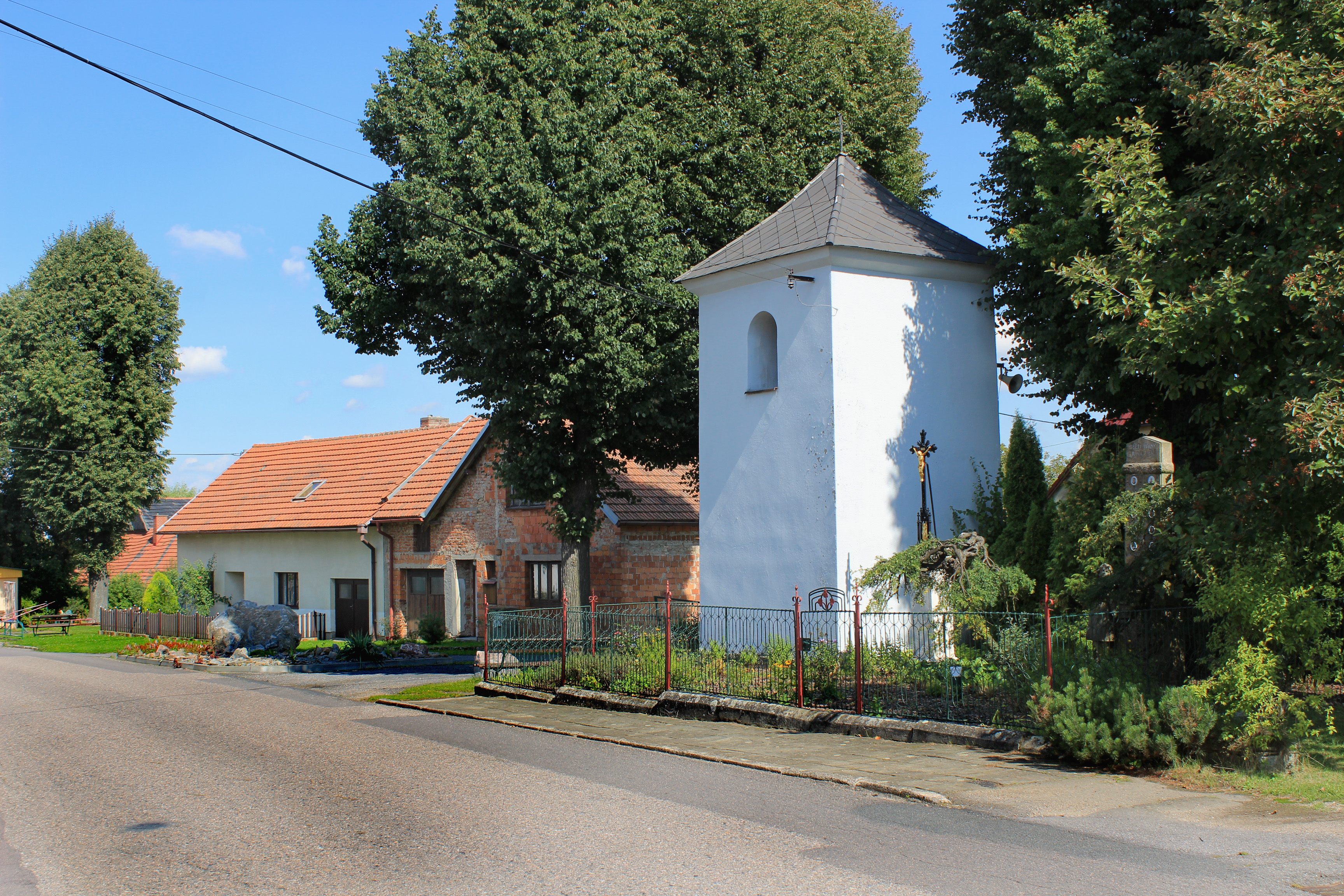 Chapel in Suchá Lhota, Czech Republic.